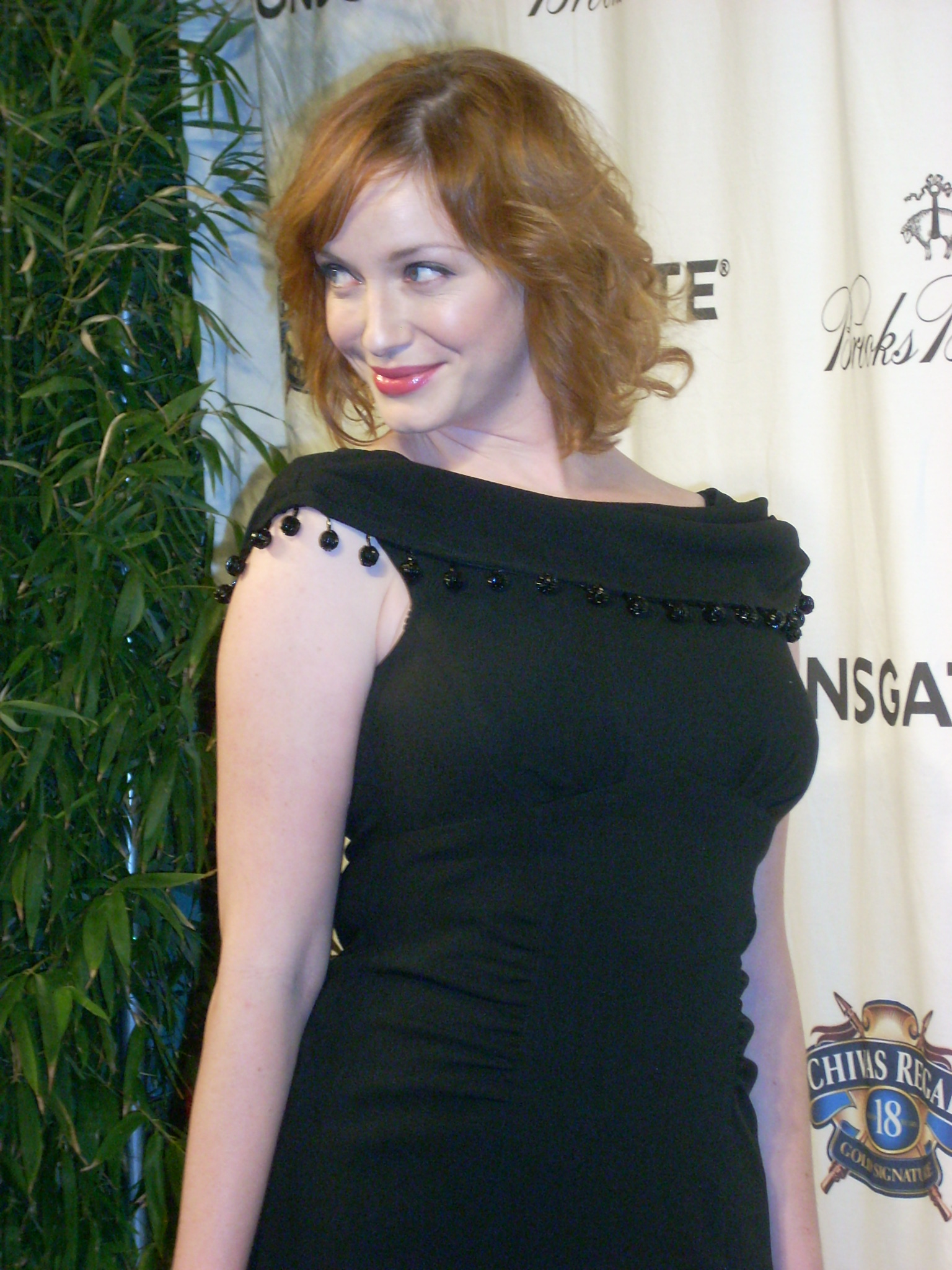 Actress Christina Hendricks at Chivas Regal Presents a Night on the Town with "Mad Men" - El Rey Theater, Los Angeles - Oct. 21, 2008